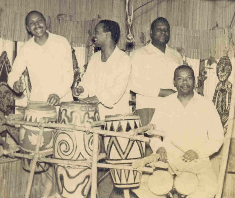 Los Guayacanes band, an afroargentine band of Tropical Music.